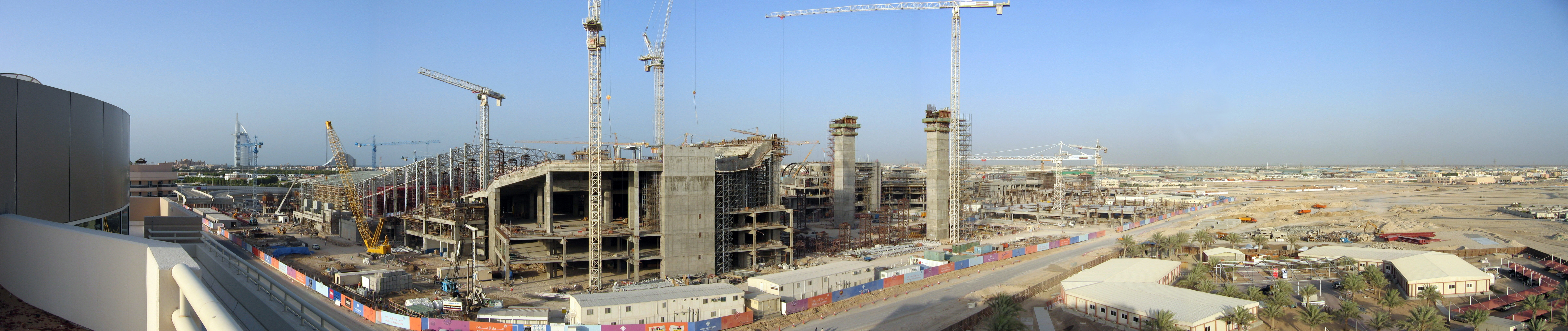 Mall of the_Emirates under construction. Photo taken November 2004